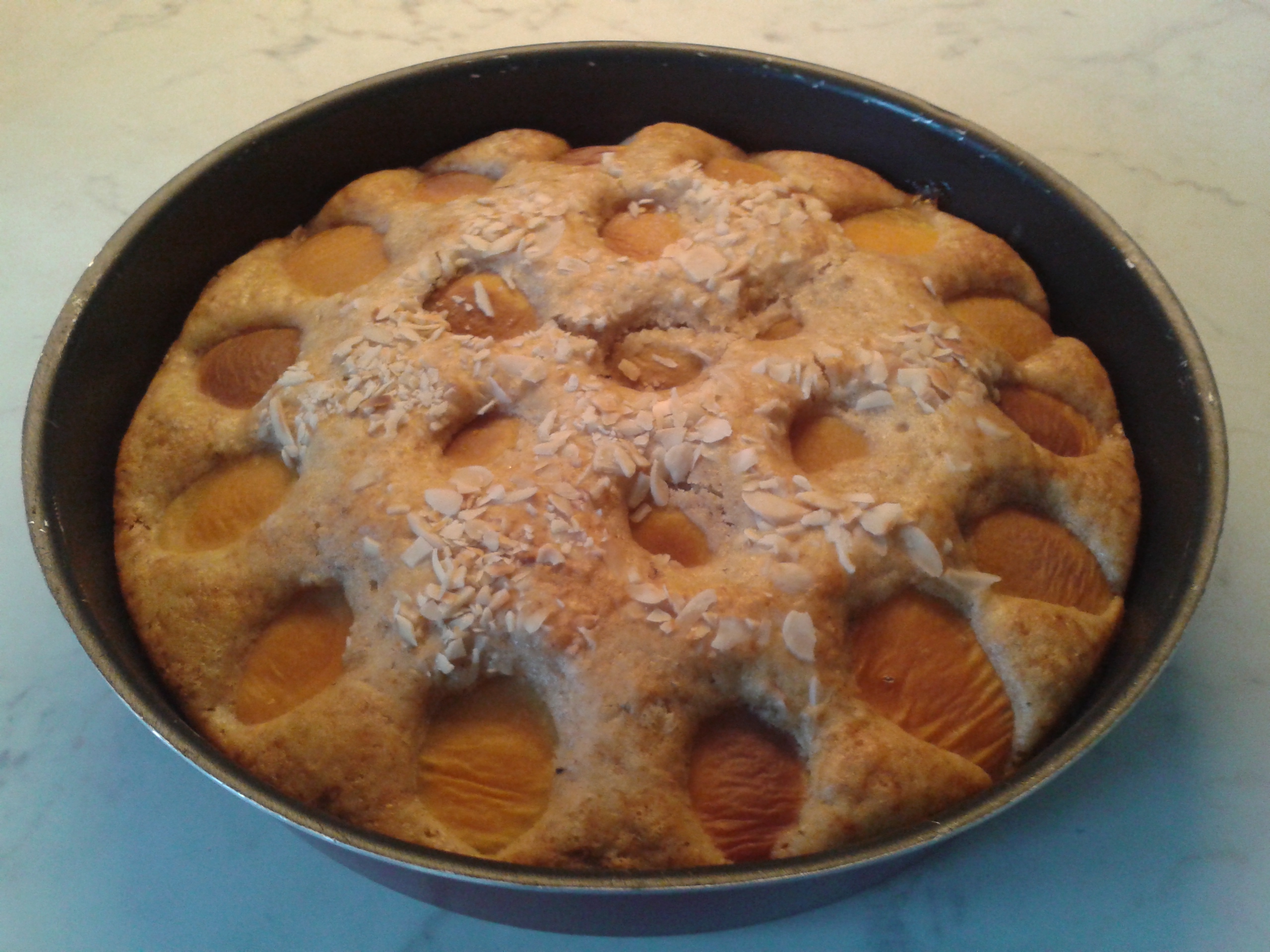 "Kayısılı (apricot) turta"